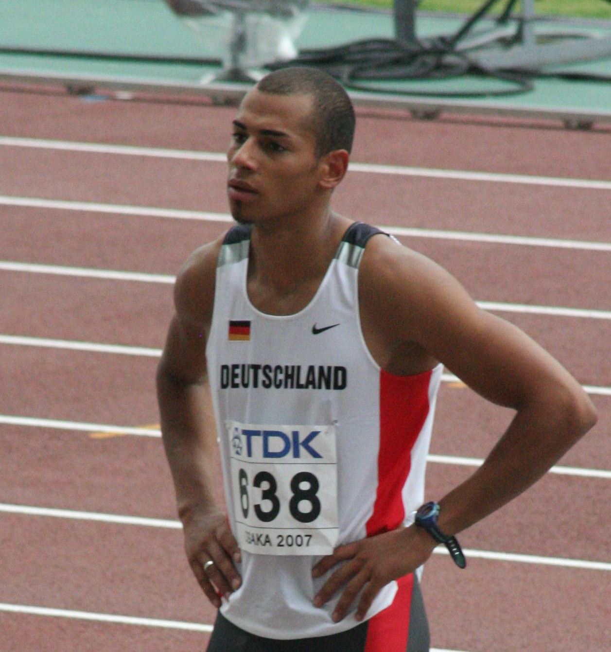 World Athletics Championships 2007 in Osaka - German Decathlete Norman Mueller during the long jump part of the decathlon